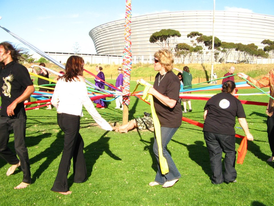 White-only Maypole dancing at Beltaine Festival Cape Town 2010